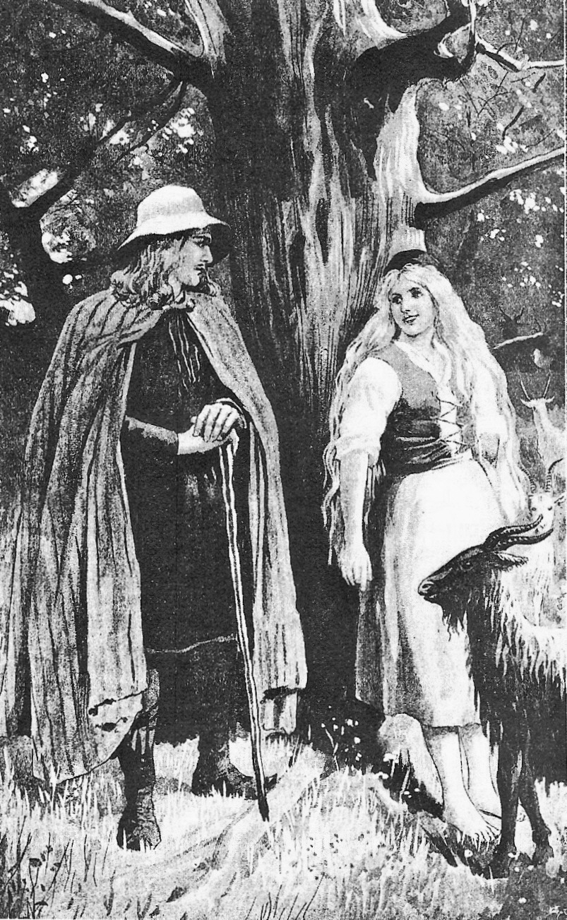 Artwork by Jenny Nyström (1854 - 1946), en:1895. Published in "Ekermann, A. (1895). Från Nordens forntid : Fornnordiska sagor bearb. på svenska / Med orig. teckn:r af Jenny Nyström-Stoopendaal. Stockholm, P. A. Norstedt. This image will enter the public domain in Sweden (and the rest of the European Economic Area) in 2017.